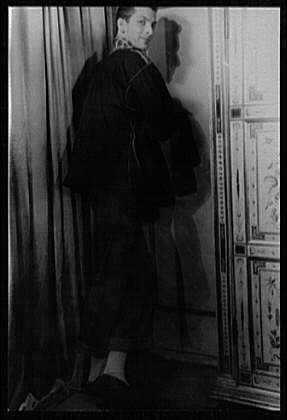 Title: Portrait of Alvin Colt Abstract: 1 photographic print : gelatin silver.